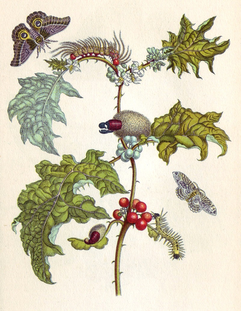 Illuminated Copper-engraving from Metamorphosis insectorum Surinamensium, Plate VI. 1705)